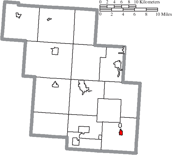 Map of the municipal and township boundaries of Perry County, Ohio, United States, as of the 2000 census, with the location of the village of Corning highlighted. Township borders are shown only in unincorporated areas in order to differentiate incorporated and unincorporated areas more clearly.